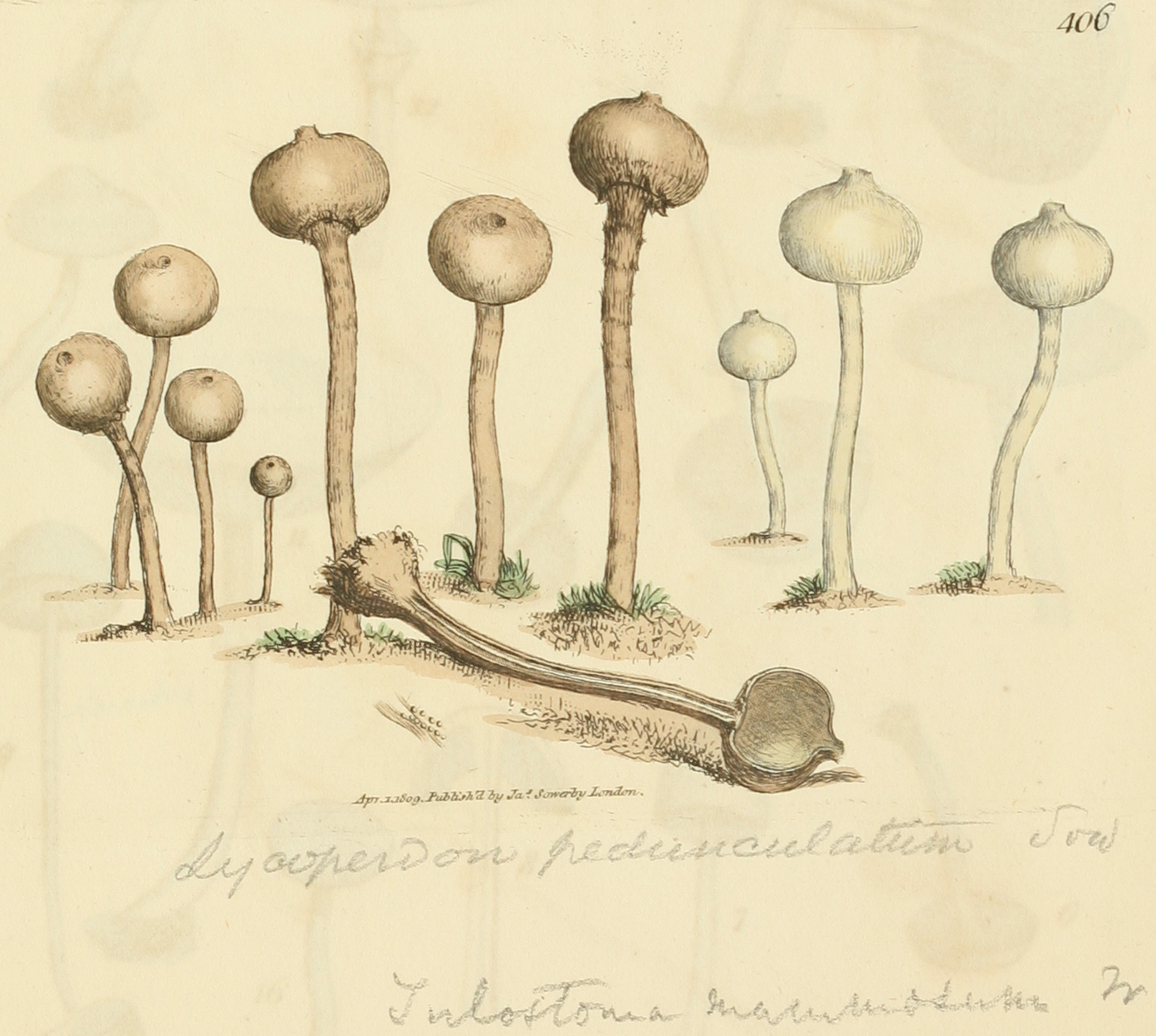 This is a plate from James Sowerby's Coloured Figures of English Fungi or Mushrooms.